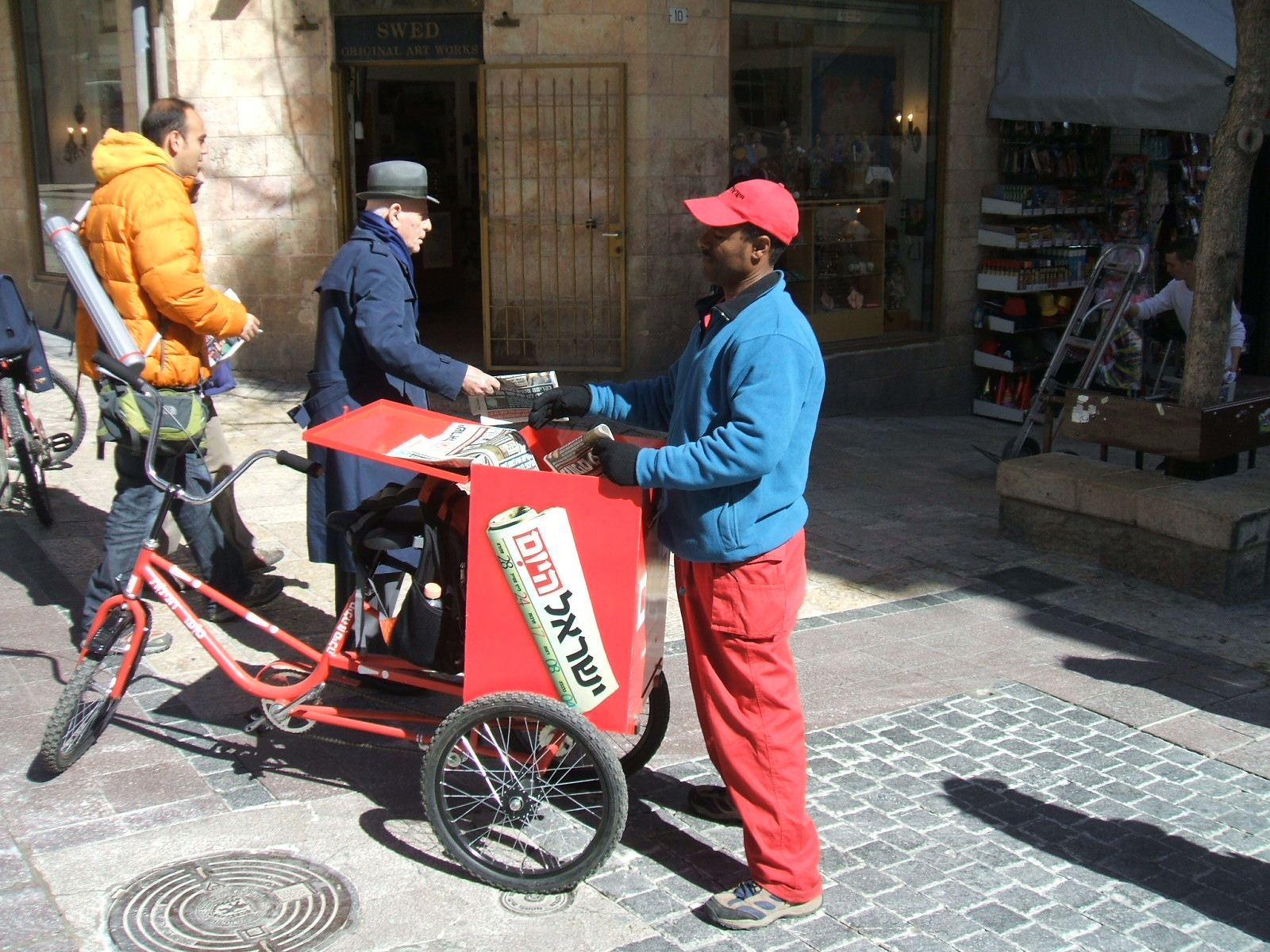 Distributing copies of the free daily Hebrew newspaper "Israel HaYom" in Jerusalem